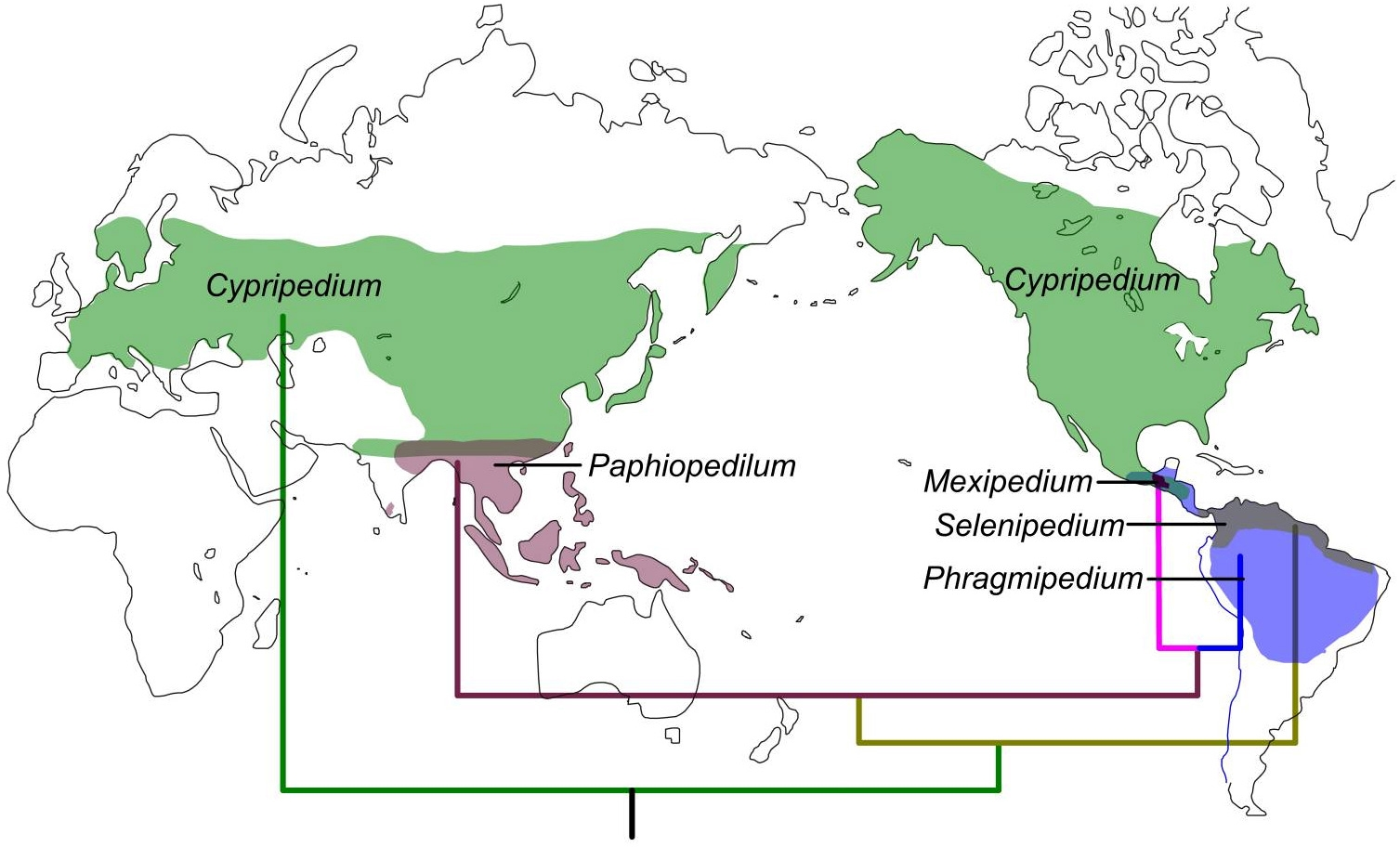 Cypripedioideae - Distribution map